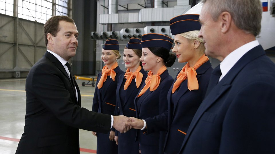 New regional Aurora airlines presentation